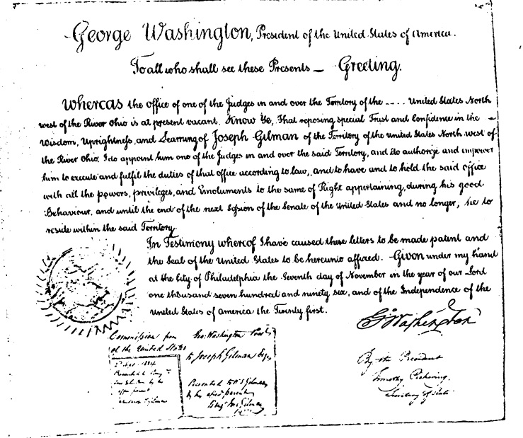 Joseph Gilman, was appointed a judge of the Northwest Territory by President Washington in 1796, as shown in this document.